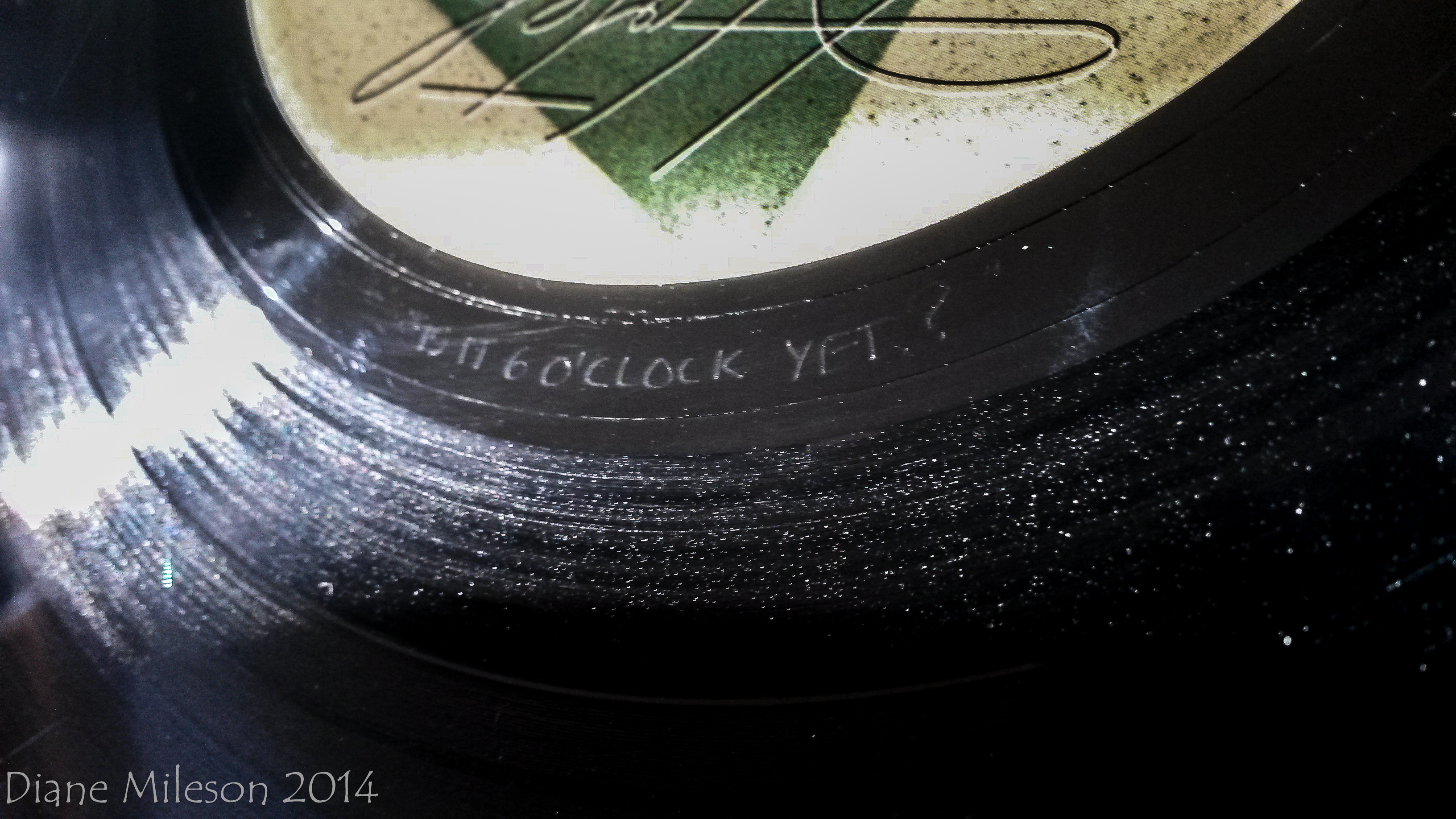 The leadout of Hotel California